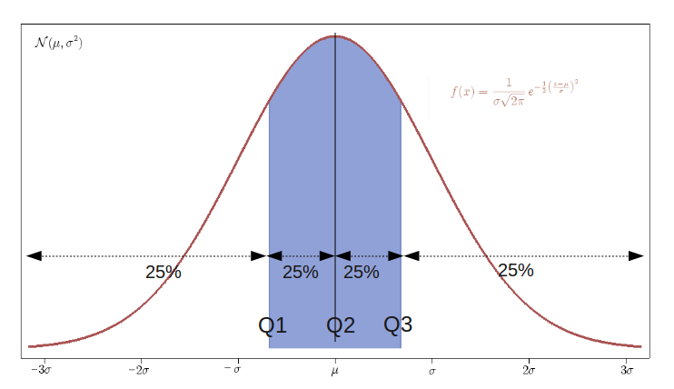 Normal distribution. Shows the quartile and interquartile range of a normal distribution. Ploted with GNU R and finished with "The Gimp" and openoffice graphics.